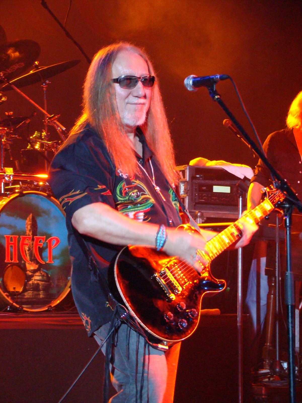 Uriah Heep, Mick Box